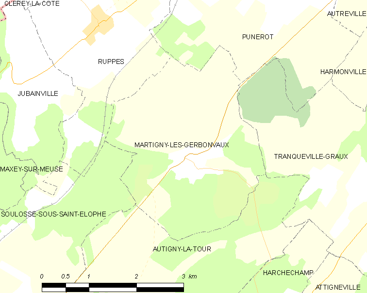 Map of French municipality Martigny-les-Gerbonvaux